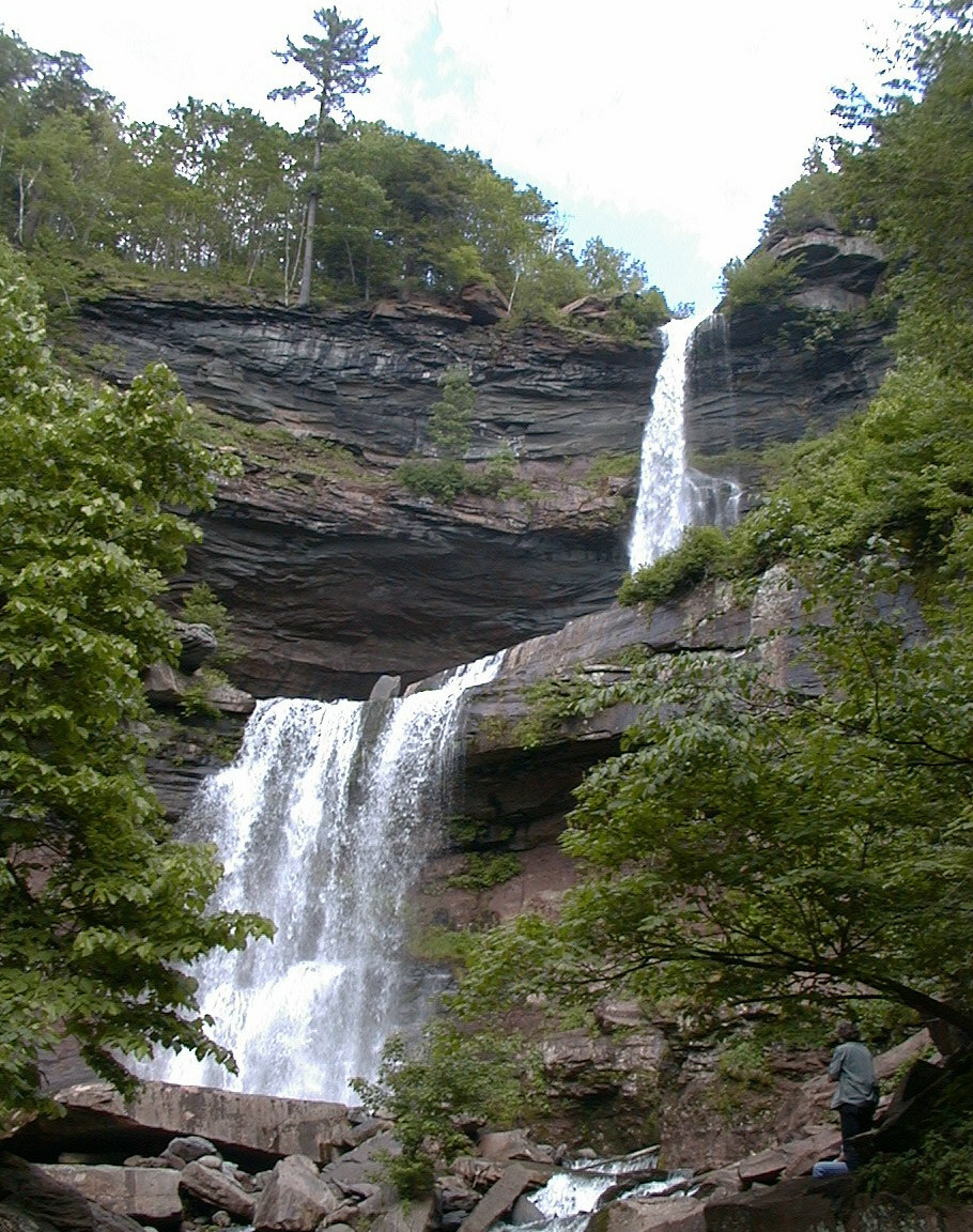 Kaaterskill Falls on Spruce Creek near Palenville, Catskill Mountains, New York. Highest falls in New York. Two separate falls total 260 feet.